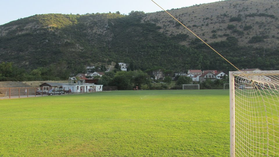 OFK Igalo (Stadium)